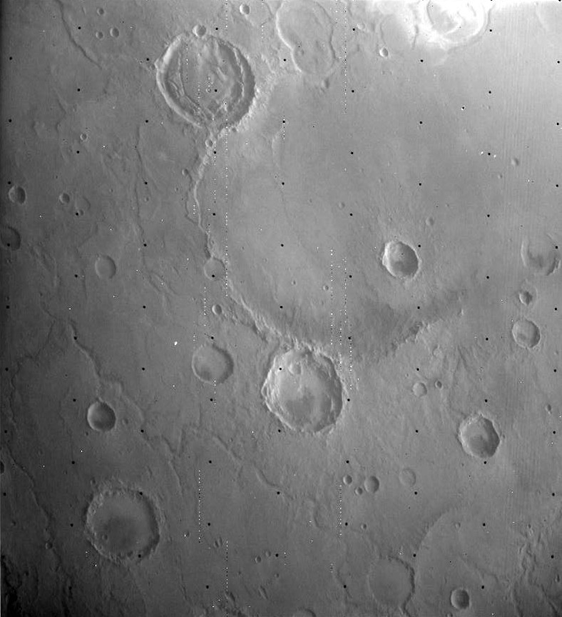 Oblique view of Miyamoto crater and western Meridiani Planum on Mars, including the landing site of MER-B Opportunity and Endeavour crater. Viking Orbiter 1 image from camera A (653A57). Red filter was used for this image. Resolution is about 250 m/pixel. North is at top. Emission Angle: 29.1 Incidence Angle: 78.6 Latitude: -3.8 Longitude: 352.9 Phase Angle: 102.8